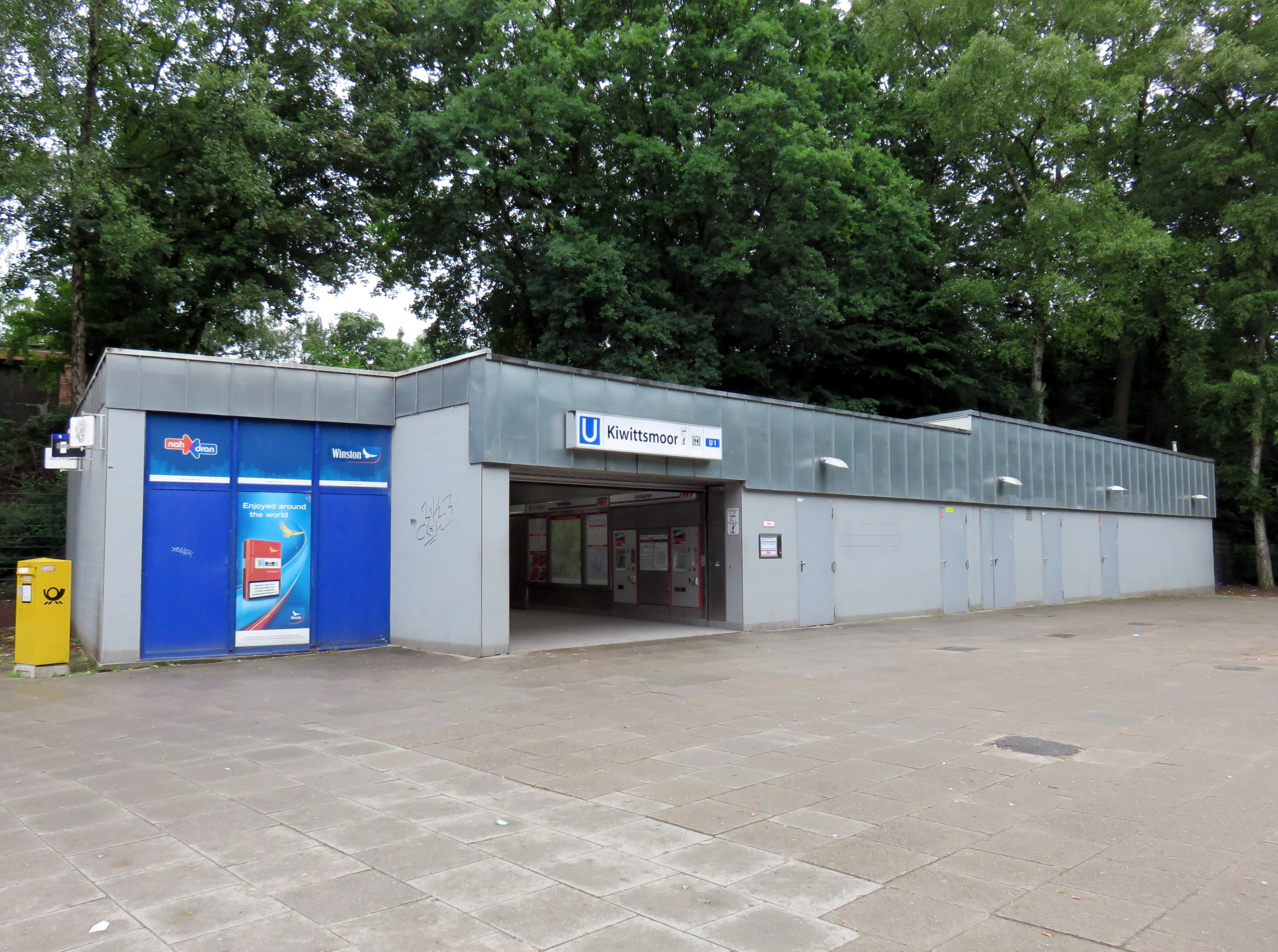 Station Kiwittsmoor of Metro line U1 in Hamburg-Langenhorn.